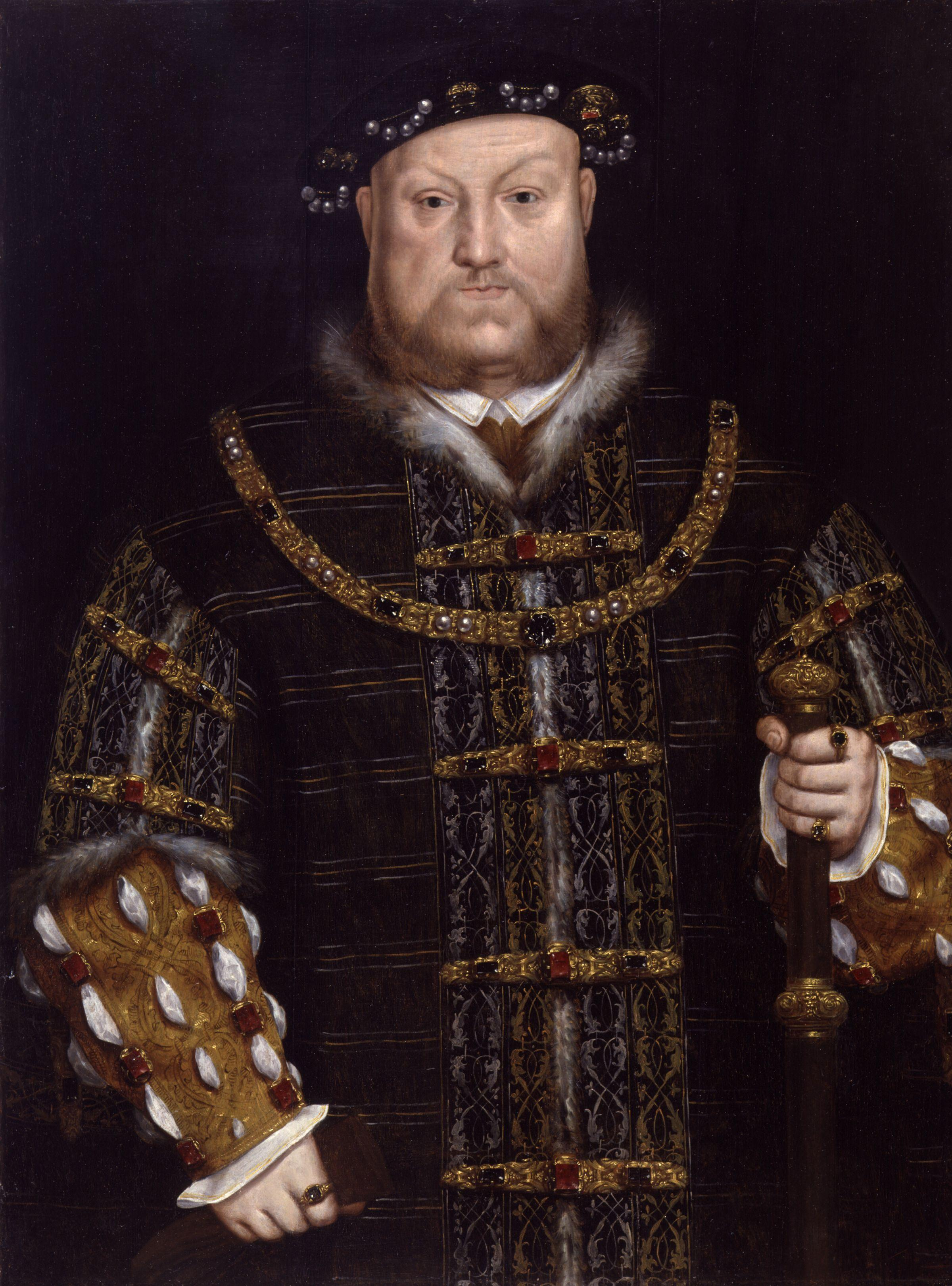 Portrait of Henry VIII in a Great Coat Holding a Staff. Oil on panel, 88.9 mm x 66.7 cm, National Portrait Gallery, London. None of the versions of this "final pattern" type are by Hans Holbein the Younger himself, though the features of the king's face are to some extent dependent on Holbein's portrayal of him in the Whitehall mural. Reference John Rowlands, Holbein: The Paintings of Hans Holbein the Younger, Boston: David R. Godine, 1985, ISBN 0879235780, p. 236.